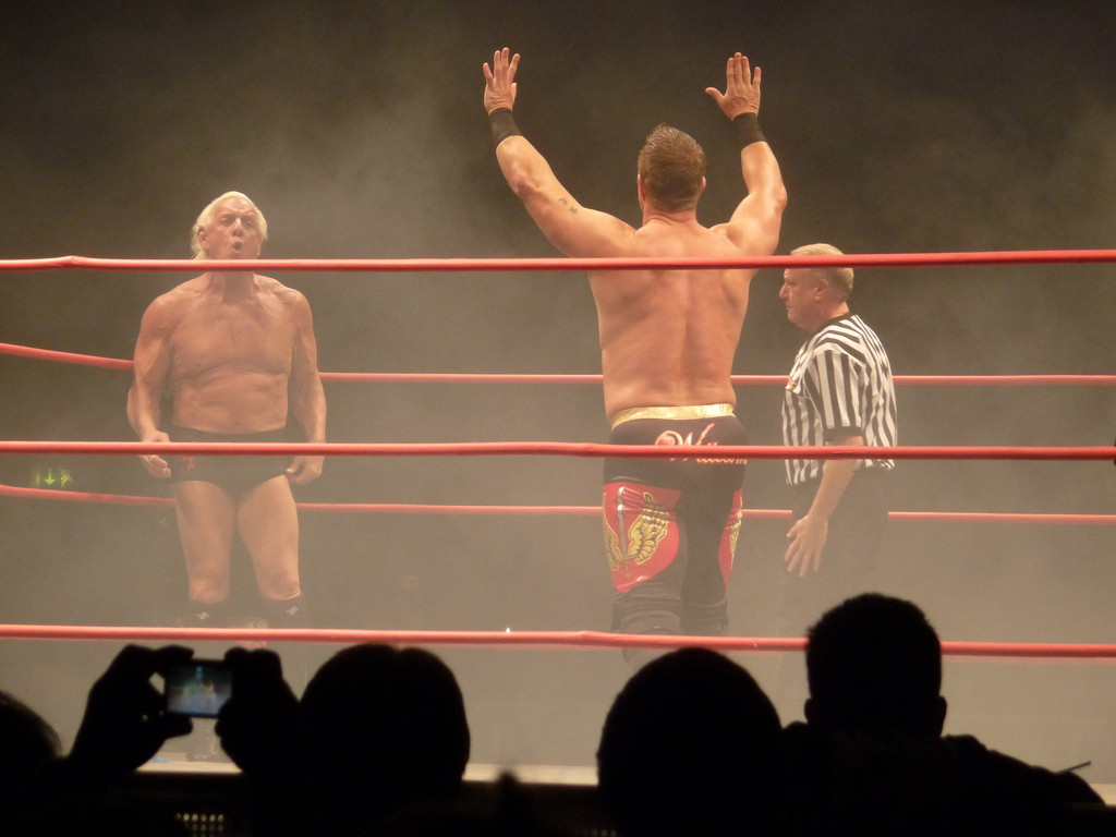 Pro-wrestlers Ric Flair and Douglas Williams during Impact Wrestling's UK tour, January 2011, Wembley Arena London